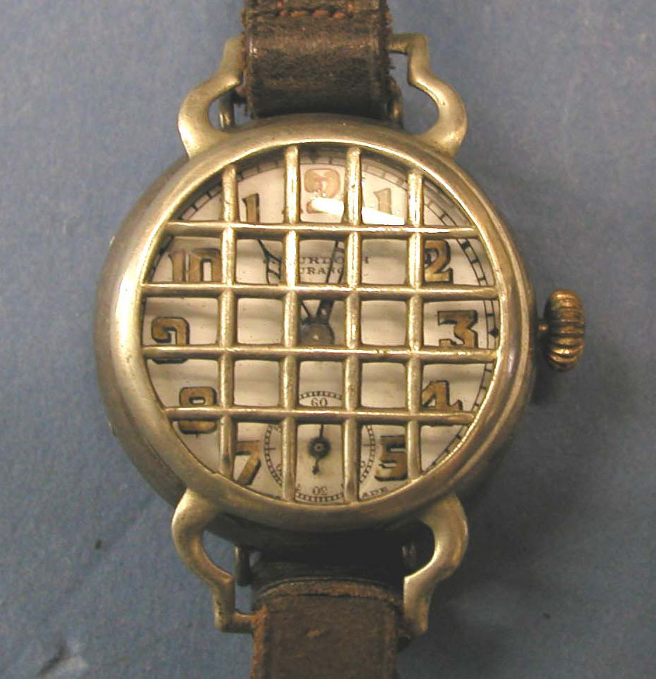 Wrist watch with detachable face guard, belonged to 38337 Private Percy Broady, 2nd Battalion, Auckland Infantry Regiment, WW1 wrist watch with detachable face-guard, leather strap watch marked- SWISS MADE strap marked- 'VICTOR - RP No. 529336 - MADE IN ENGLAND' retailer name on face- MURDOCH - TAURANGA